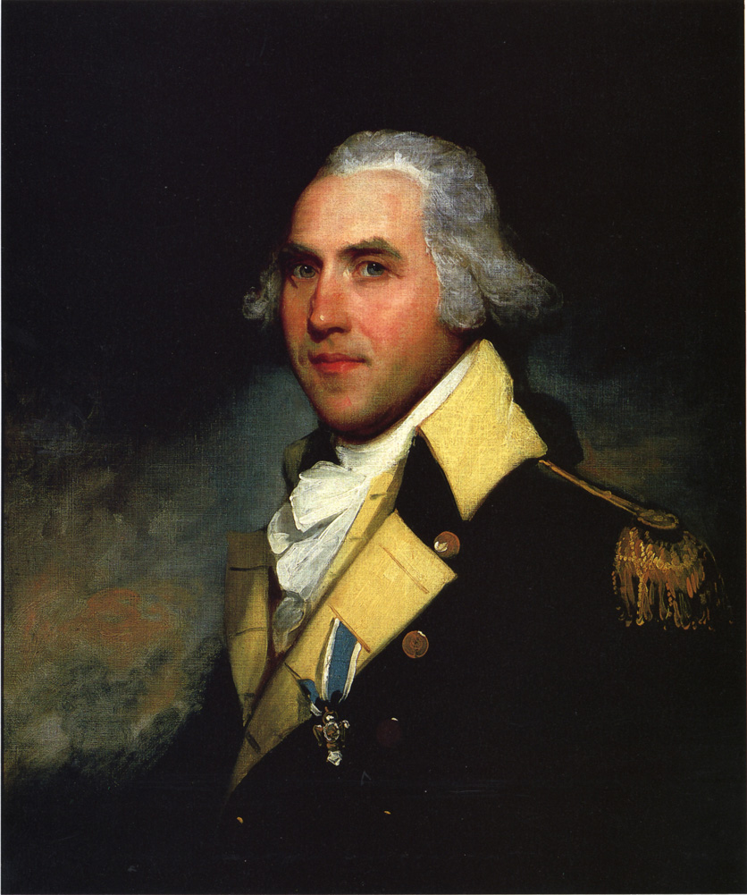 Oil painting of American Revolutionary War General Peter Gansevoort.